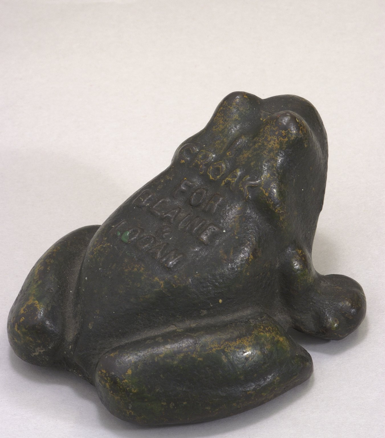 Collection: Cornell University Collection of Political Americana, Cornell University Library Repository: Susan H. Douglas Political Americana Collection, #2214 Rare & Manuscript Collections, Cornell University Library, Cornell University Title: Blaine-Logan Frog Paperweight or Door Stop, ca. 1884 Political Party: Republican Election Year: 1884 Date Made: ca. 1884 Measurement: Sculpture: 4.5 x 5 in.; 11.43 x 12.7 cm Classification: Metalwork Persistent URI: There are no known U.S. copyright restrictions on this image. The digital file is owned by the Cornell University Library which is making it freely available with the request that, when possible, the Library be credited as its source.